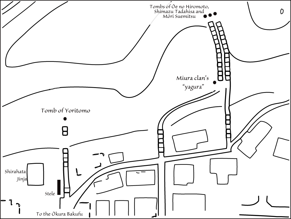 A map of the area around Minamoto no Yoritomo's grave in Kamakura, Japan